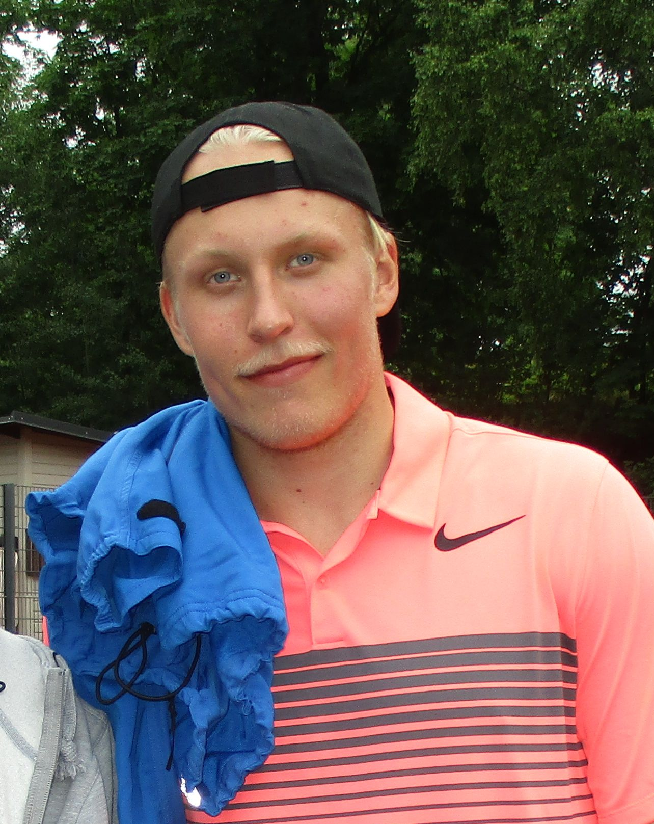 Patrik Laine at Bermuda tournament at Kalastajatorppa tennis club on 1st of July 2017 in Helsinki.